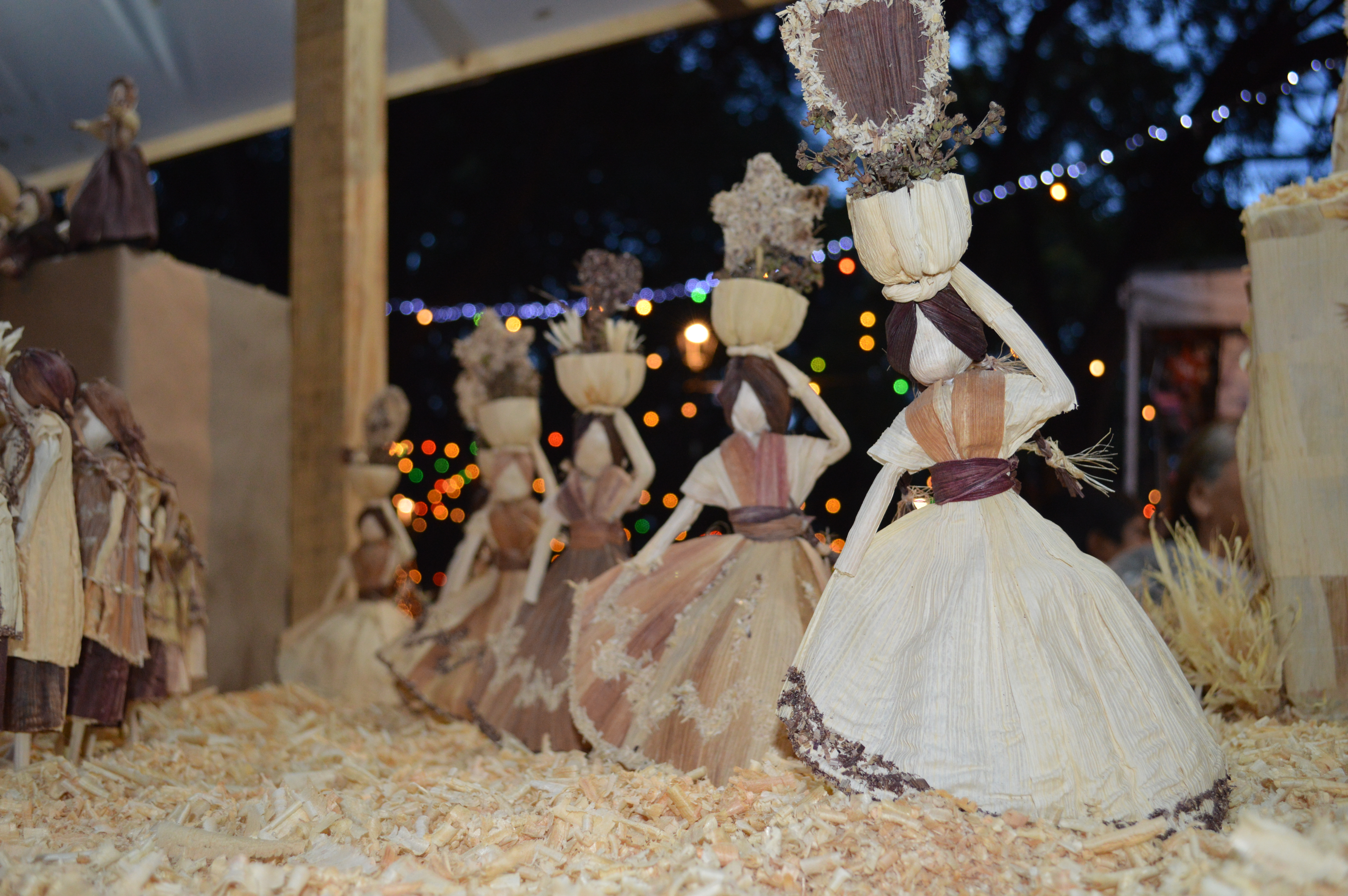 "Oaxaca y sus regiones" corn husk entry by Yesenia Guerrero Cervantes at the 2014 Noche de Rabanos in the city of Oaxaca, Mexico